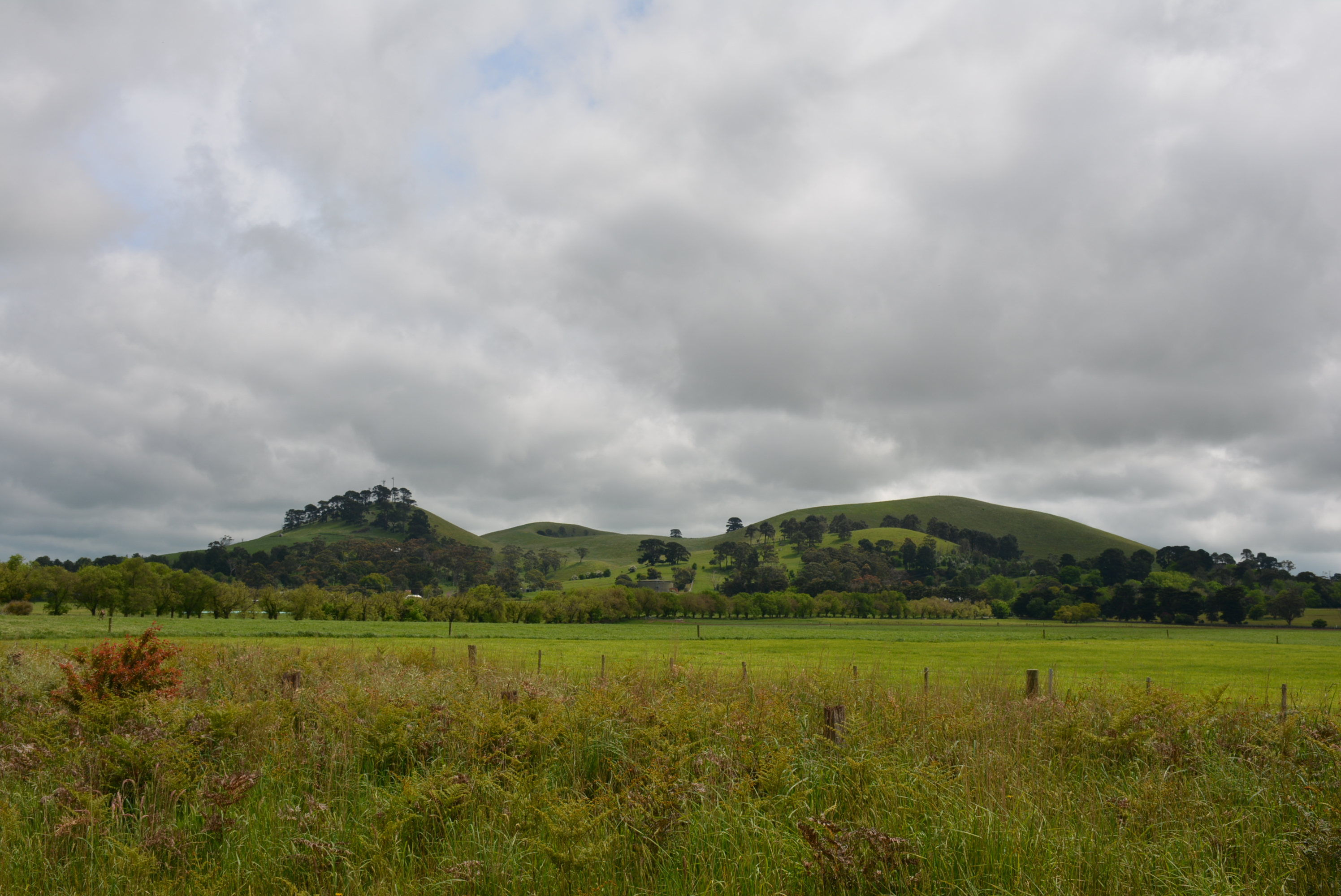 A view of Mount Noorat, Victoria, Australia. This is a dormant volcano in the Western District of Victoria, next to the toen of Noorat.